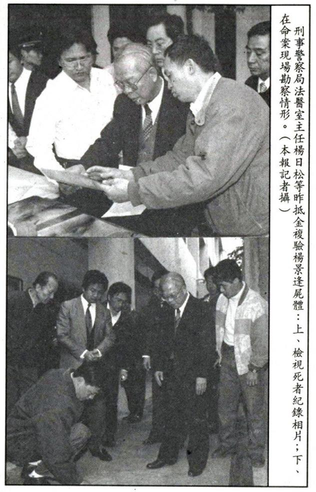 YANG